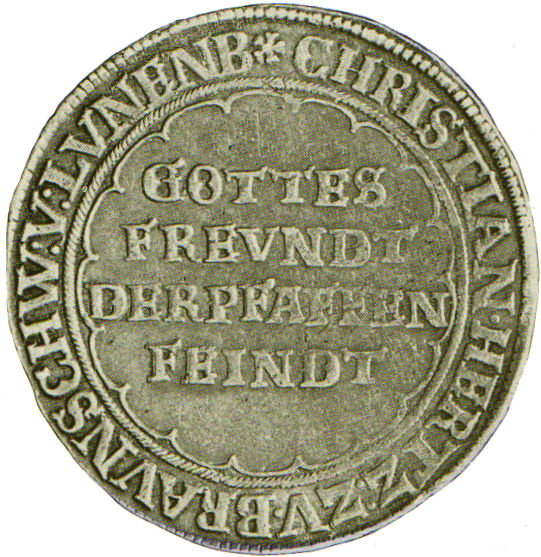 Pfaffenfeindtaler, minted 1622 in Lippstadt w. treasure stolen in the cathedral of Paderborn. Welter 1381. GOTTES FREVNDT DER PFAFFEN FEINDT in field. Around: *CHRISTIAN•HERTZ:ZU•BRAVNSSCHEW:V:LVNENB